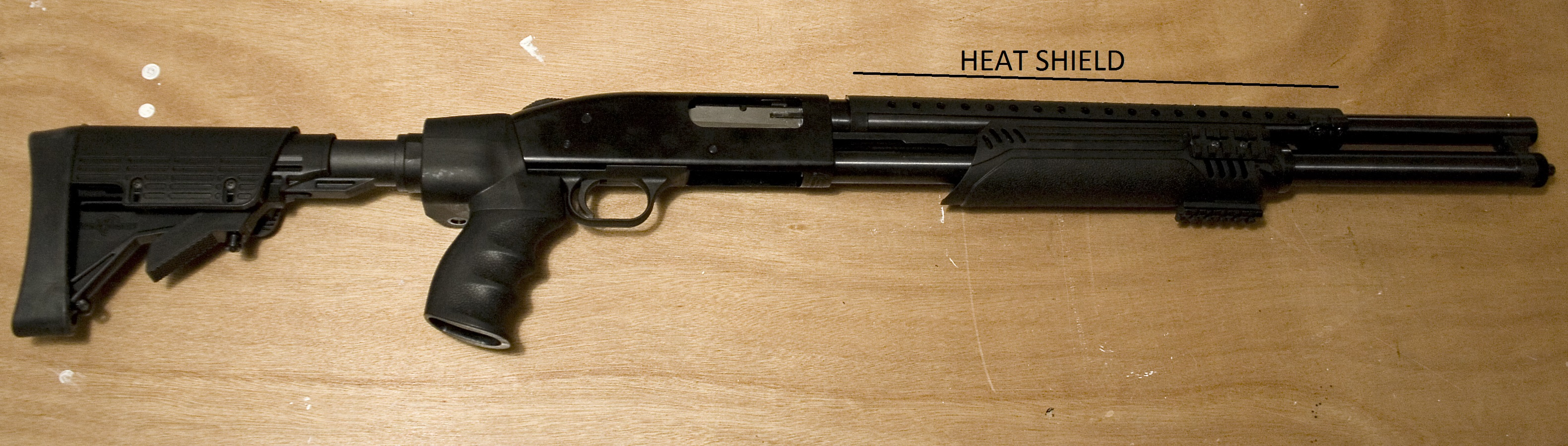 Shotgun with Heat Shield indicated